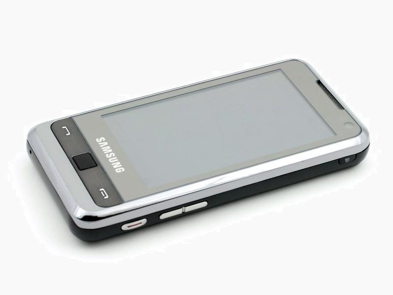 Picture of Samsung i900 Omnia